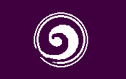 Flag of Noheji Aomori